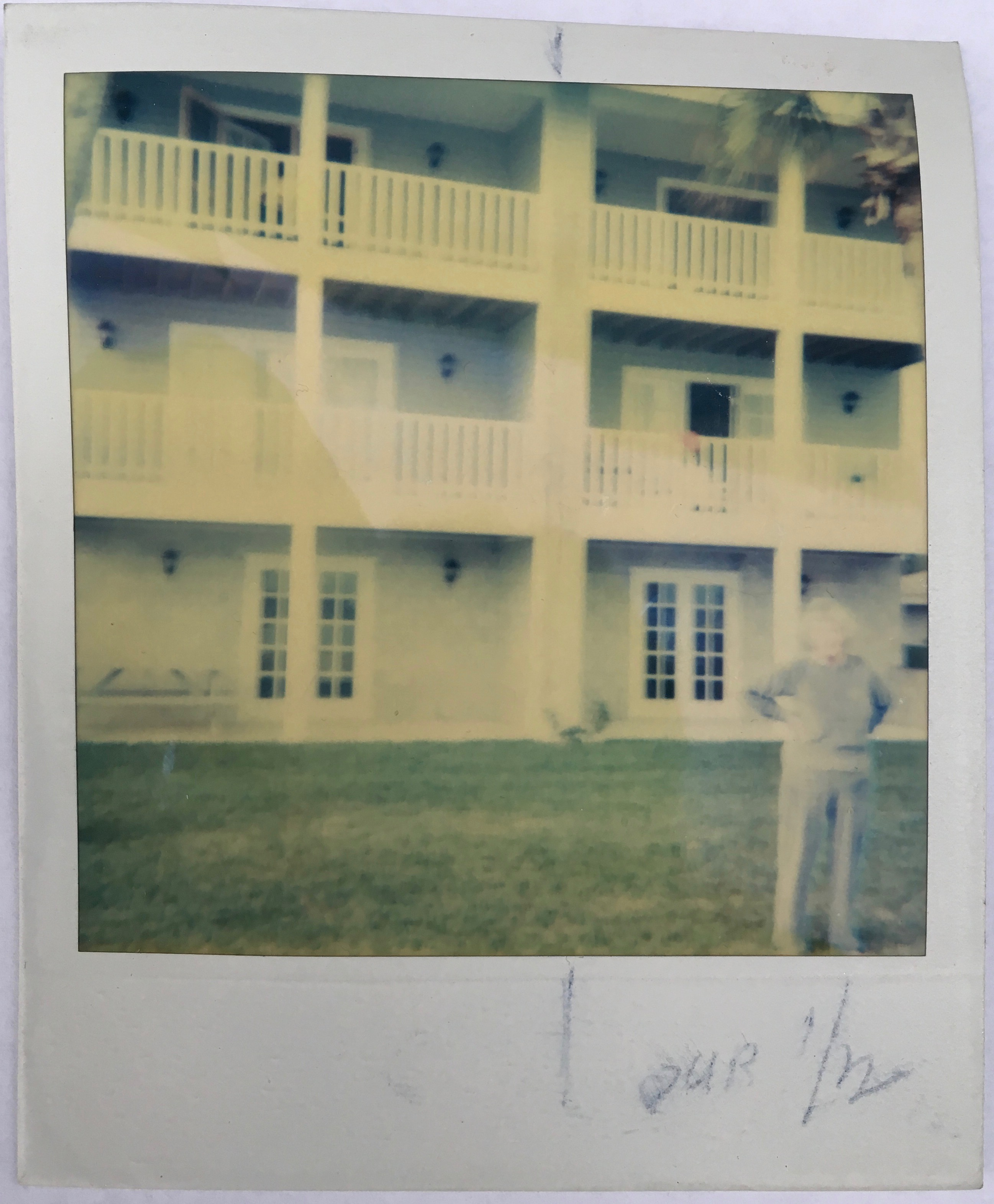 Print credit Joseph J. Frenett, 1988; digital print credit Colleen C. Thomas; 2019.